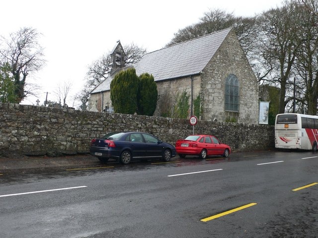 St Cronan's church, Tuamgraney St Cronan founded a church on this site in the 6th century but was plundered by the Vikings in 886 and 949 and the present church was built shortly after that, with additions in the 12th and 19th centuries. It is said to be the oldest church to be in continuous use in all of Ireland, Scotland, England and Wales. Also it is recorded that Brian Boru used this church and provided for its ongoing repairs.